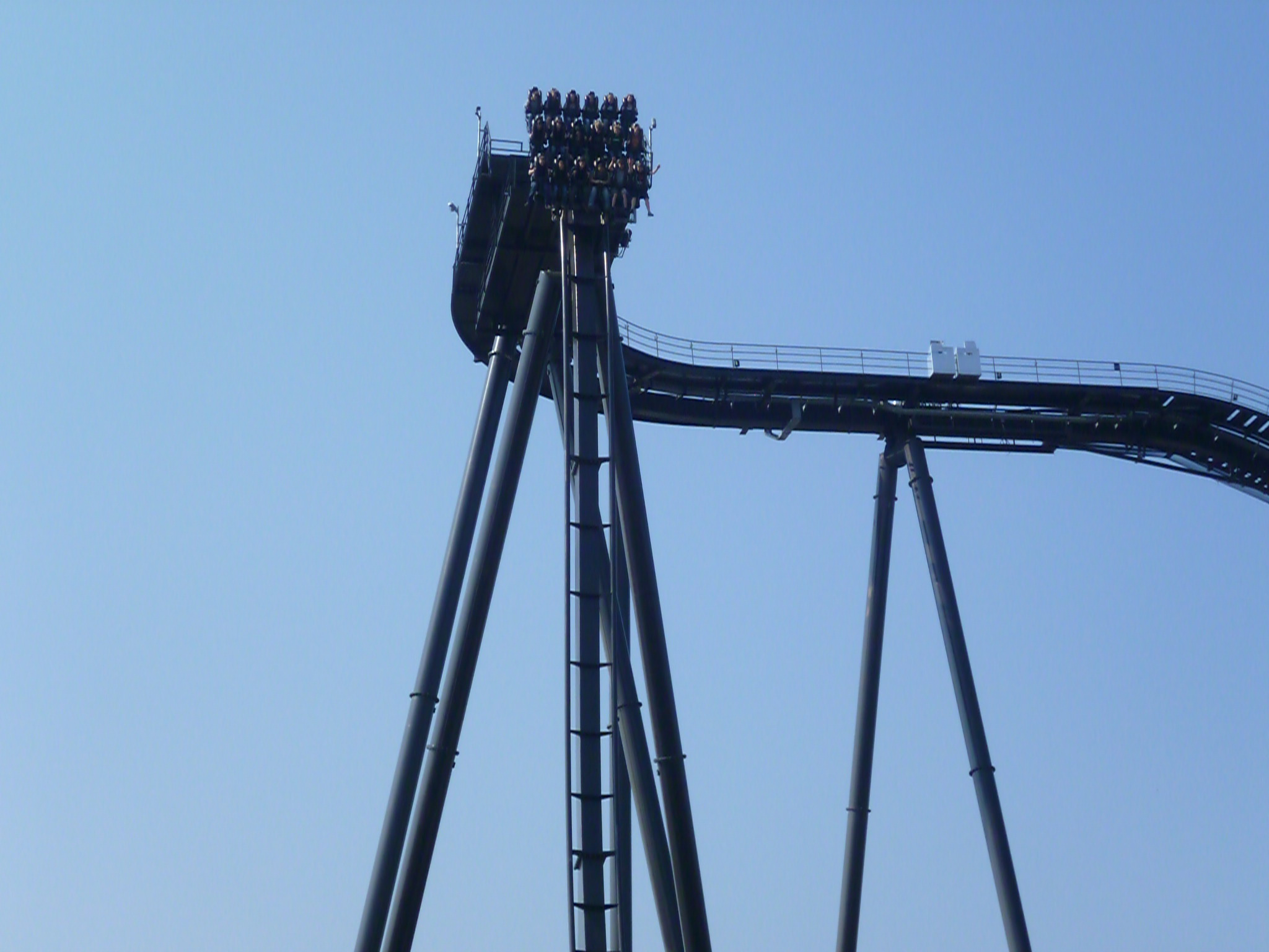 Dive Coaster KRAKE